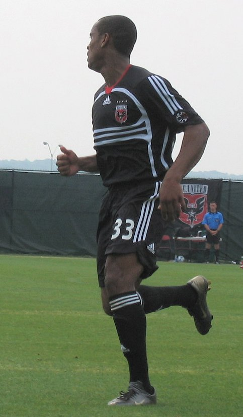 Photo of Nicholas Addlery taken by me at RFK Auxilary Field, Washington, DC during a Major League Soccer (MLS) Reserve match between D.C. United and Houston Dynamo.